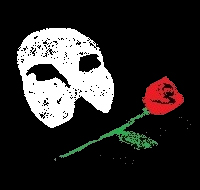 OG (mask and rose)